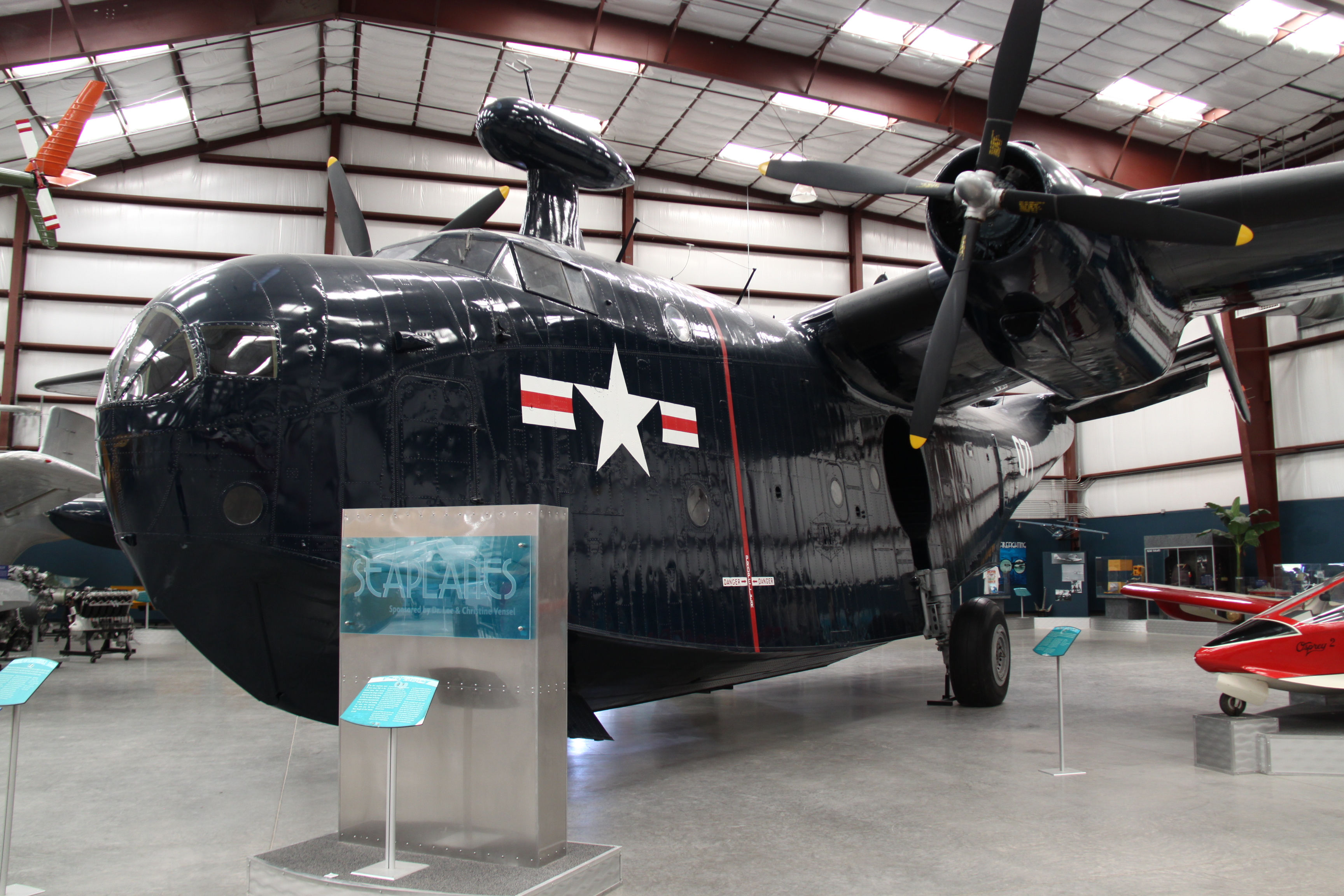 At Pima Air & Space Museum